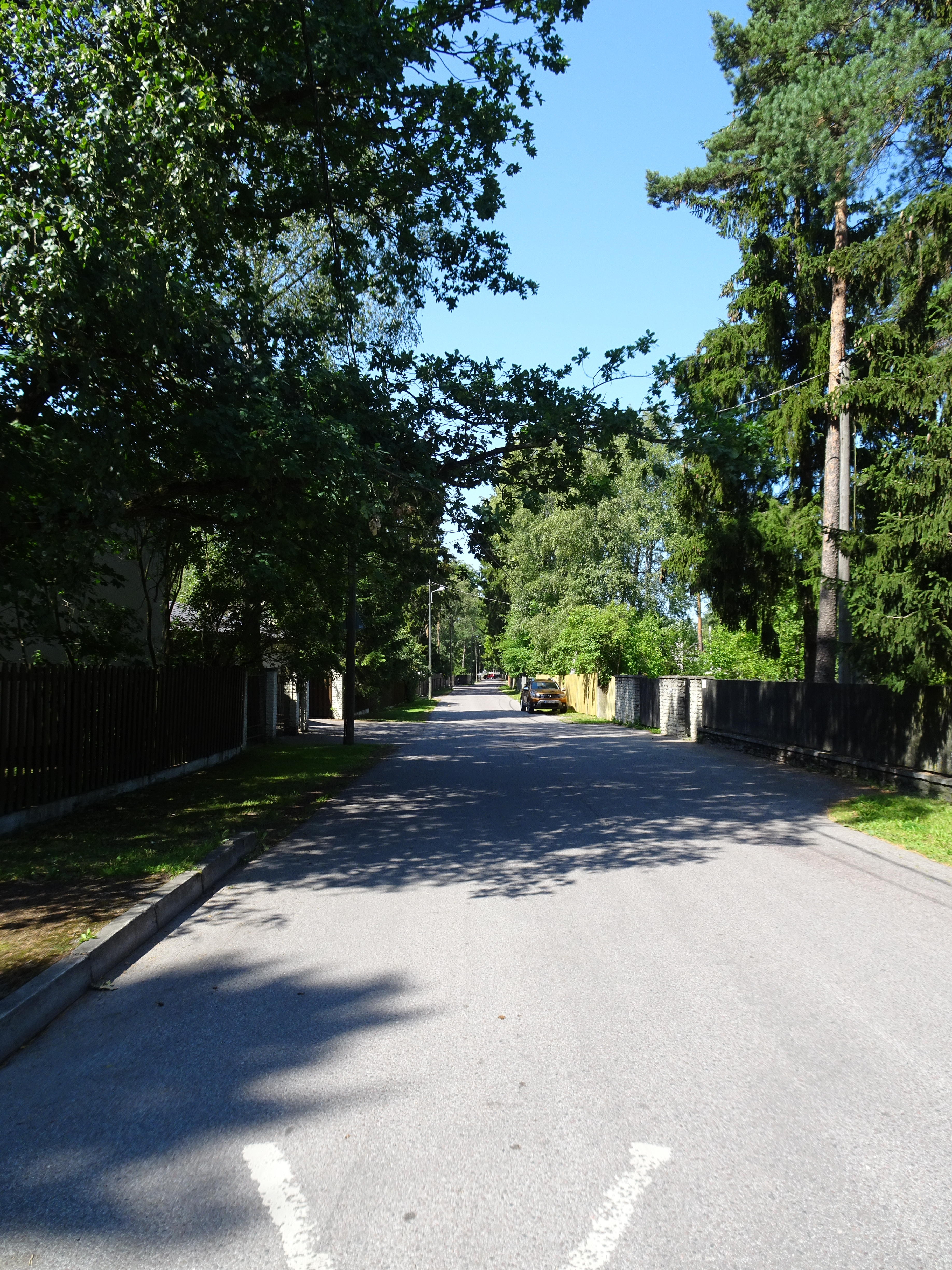 Õitse Street in Tallinn, Estonia